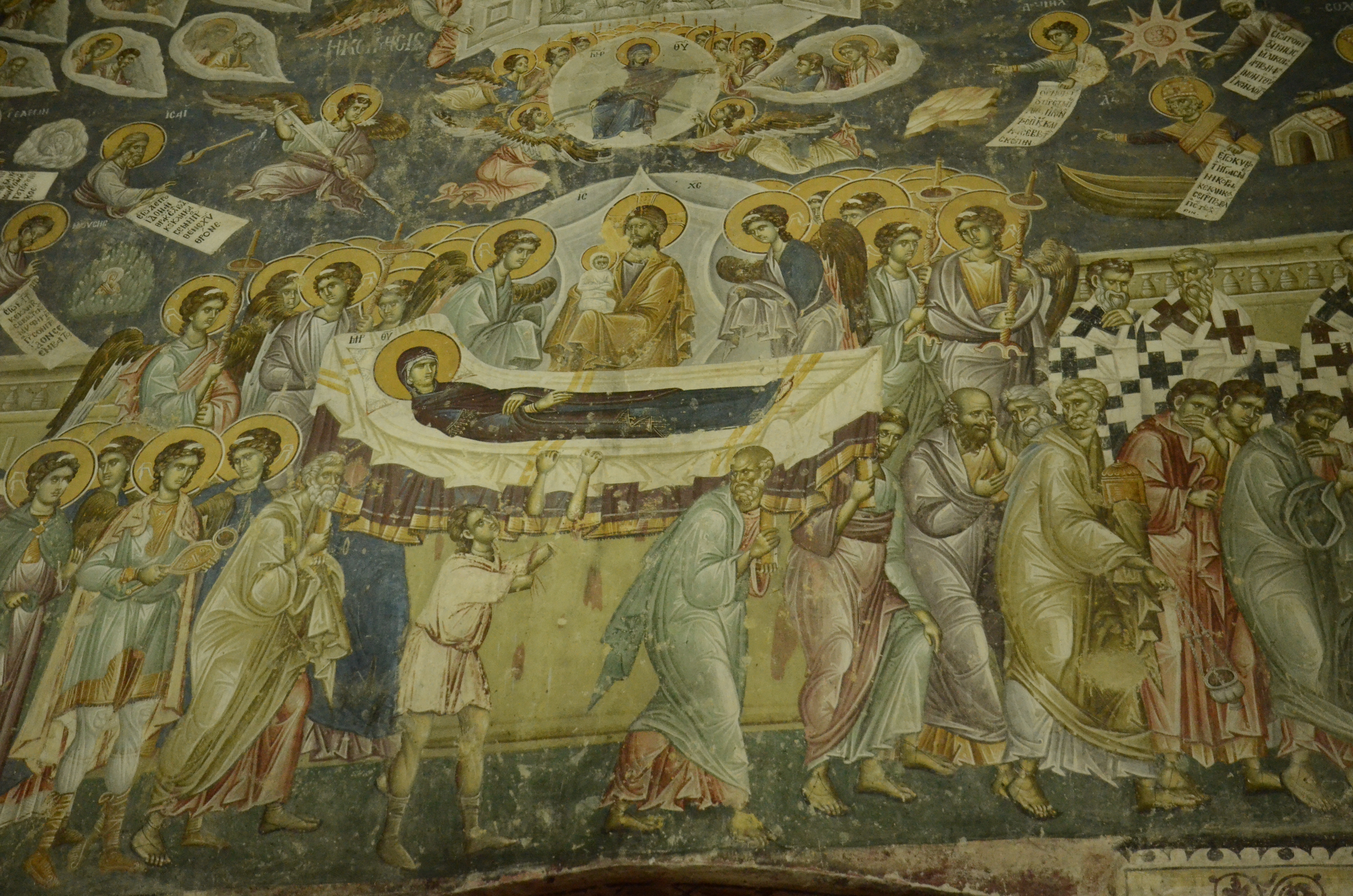 Church of Saint George in Staro Nagorichino, Dormition on the western wall